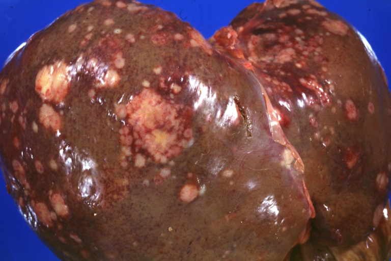 Metastatic Carcinoma Pancreas: Gross natural color external view with lesions a surgeon would see them at celiotomy